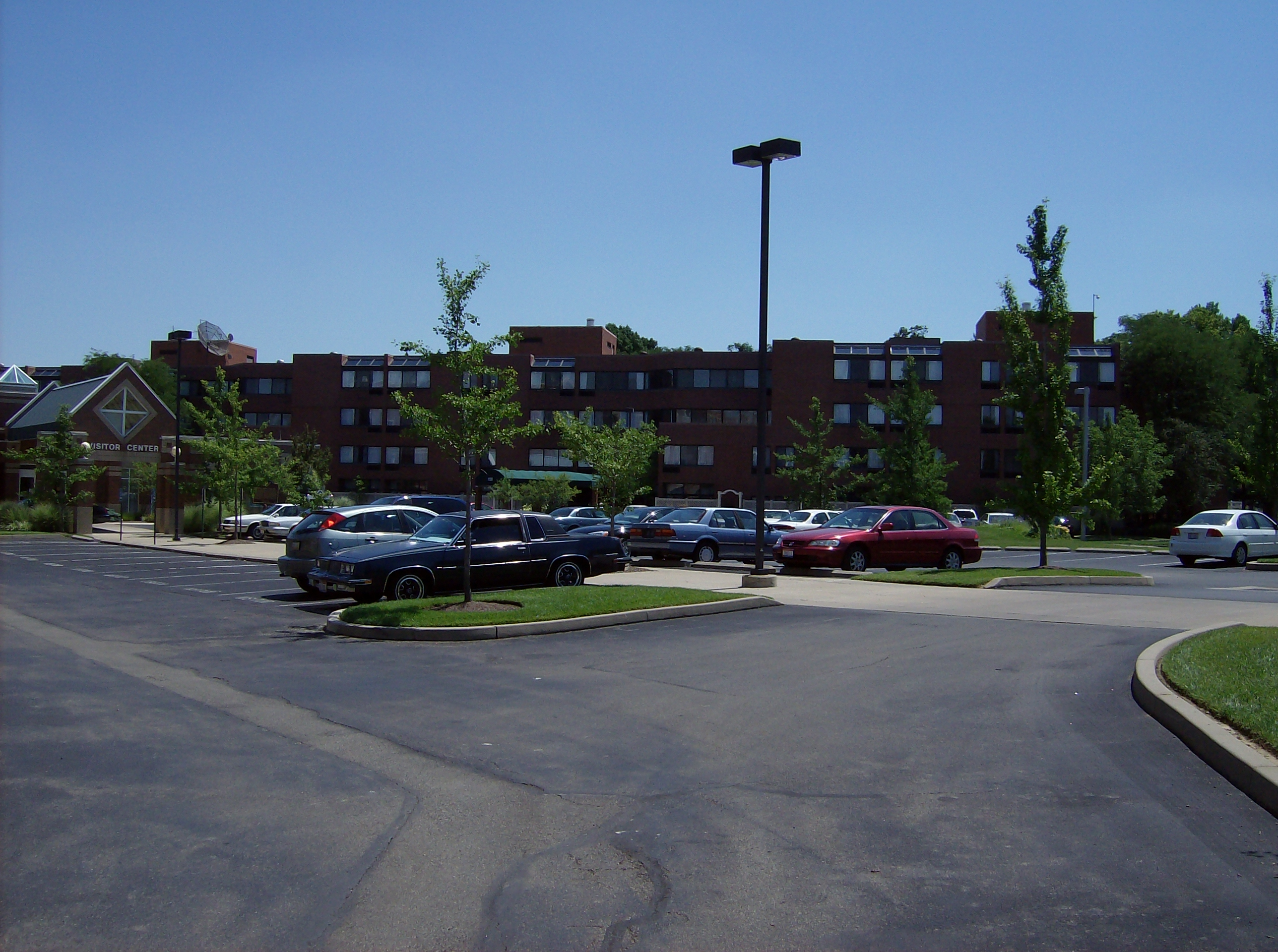 Parking lots at the center of Maple Knoll Village in Springdale, Ohio, Ohio, United States. Picture taken at Breeze Manor, looking toward the visitors' entrance and Beecher Place.